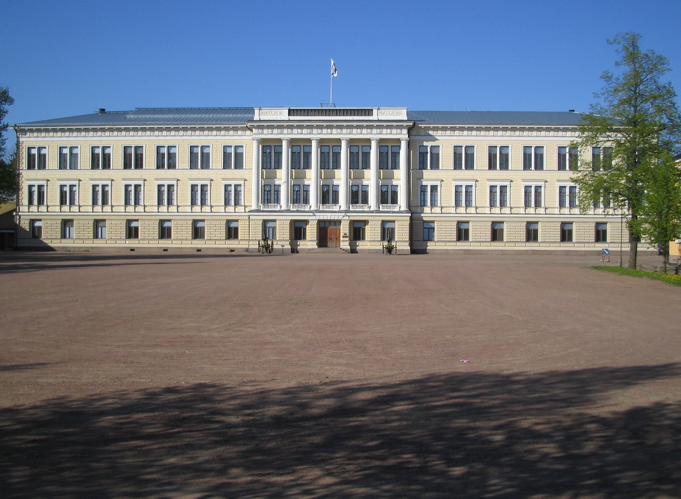 Main building of the reserve officers school, Hamina, Finland. Completed in 1898. Architect: Jac. Ahrenberg.